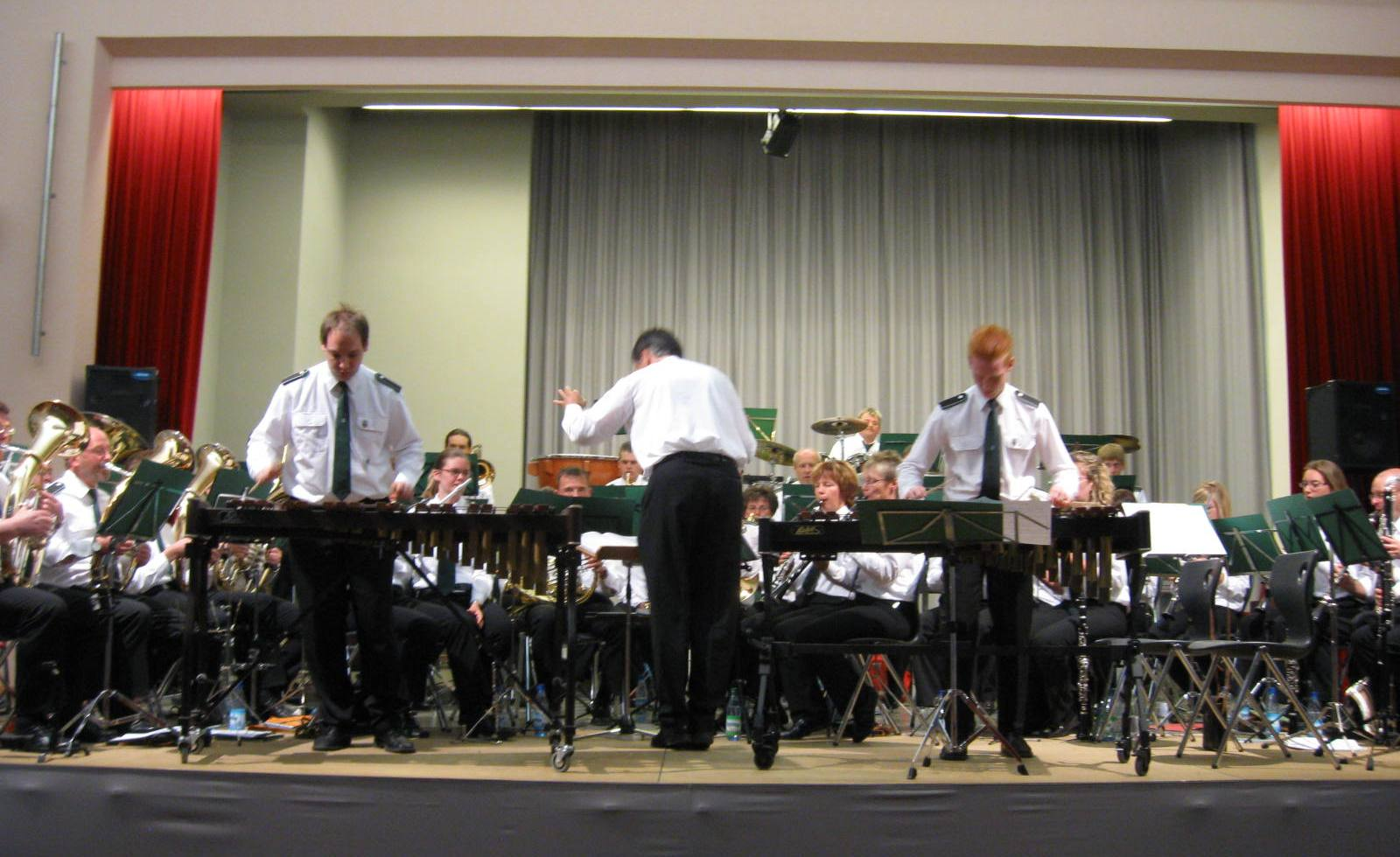 The Symphonic Winds of the Musikverein Affeln in Concert in Klingenthal/Germany in 2009